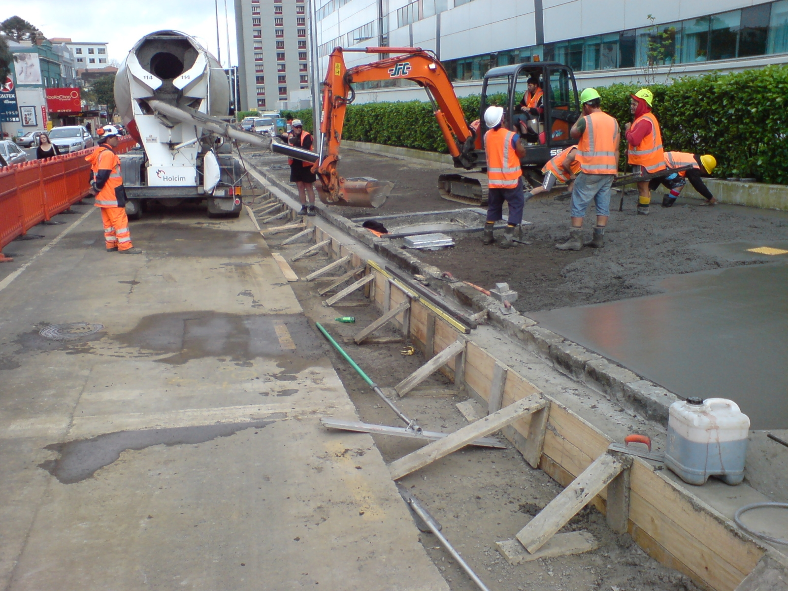 Constructing a curb and channel in Auckland City, New Zealand. Works as part of the 'Central Connector' bus route.